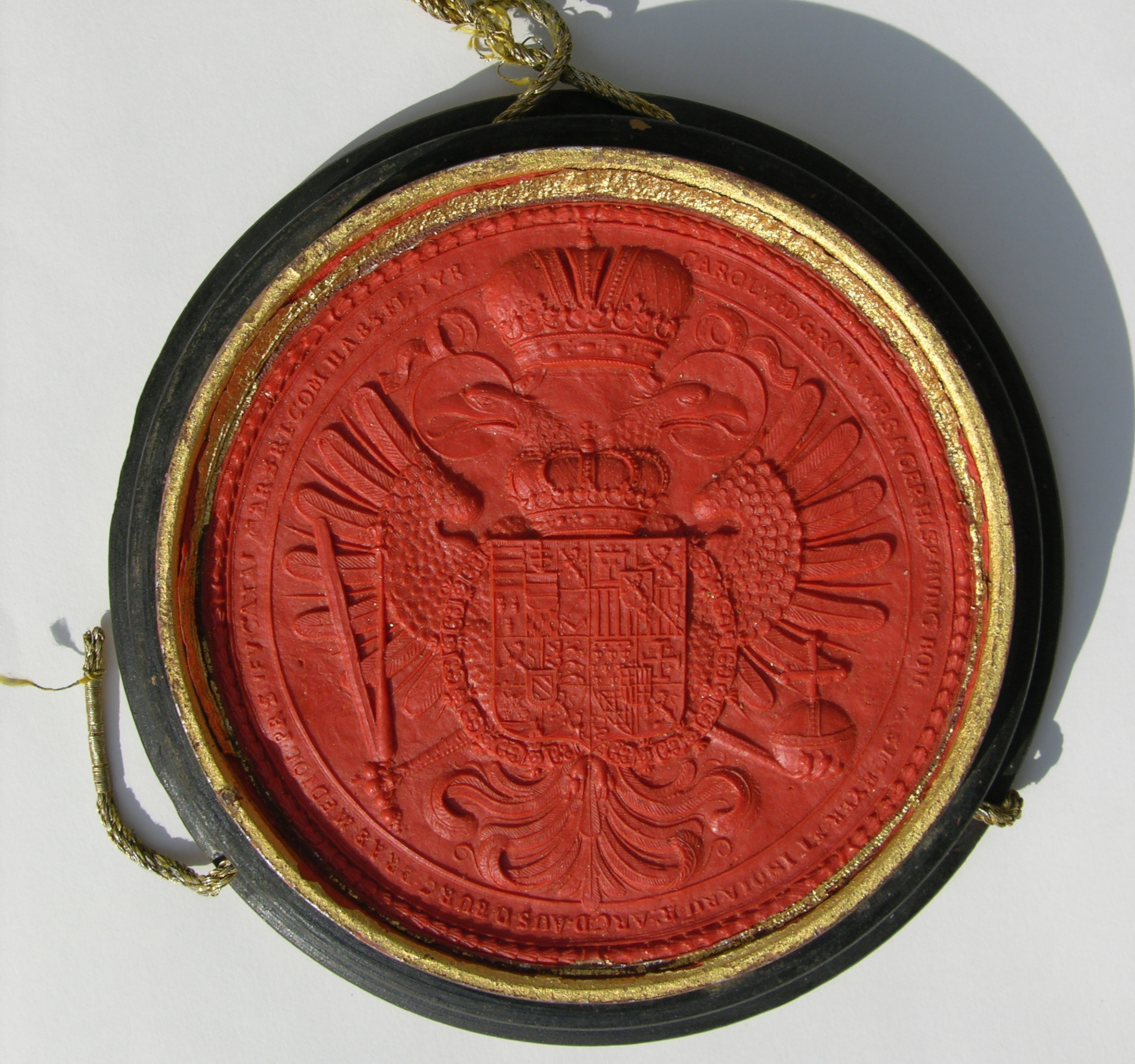 The seal of Charles VI, emperor of the Holy Roman Empire from 1711 to 1740. The seal shows the crowned double-headed Reichsadler, holding the sceptre, the Imperial Sword and the Globus cruciger.